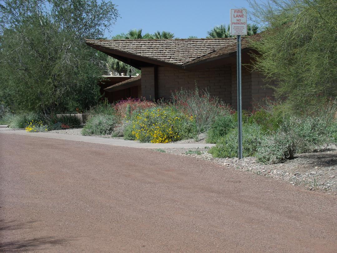 Sandra Day O'Connor's House built in 1959. O'Connor's house was moved from Paradise Valley, Ariz., to Tempe's Papago Park. It is listed in the Tempe Historic Properties Register.